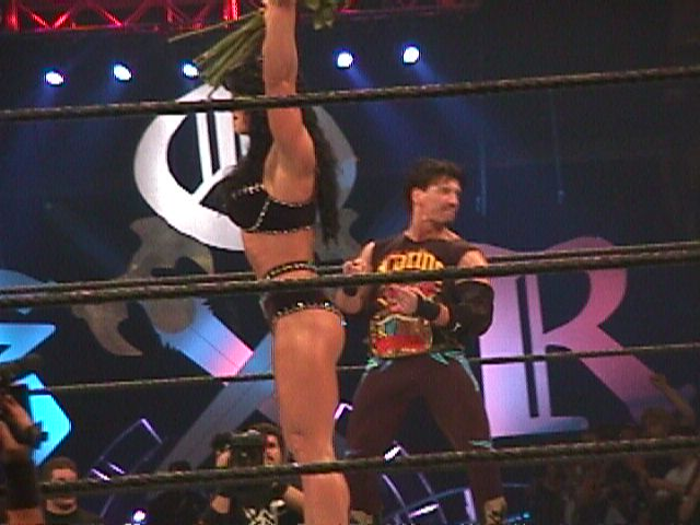 Chyna and Eddie Guerrero at the WWF King of the Ring at the Fleet Center in Boston, MA in 2000 - WWE.